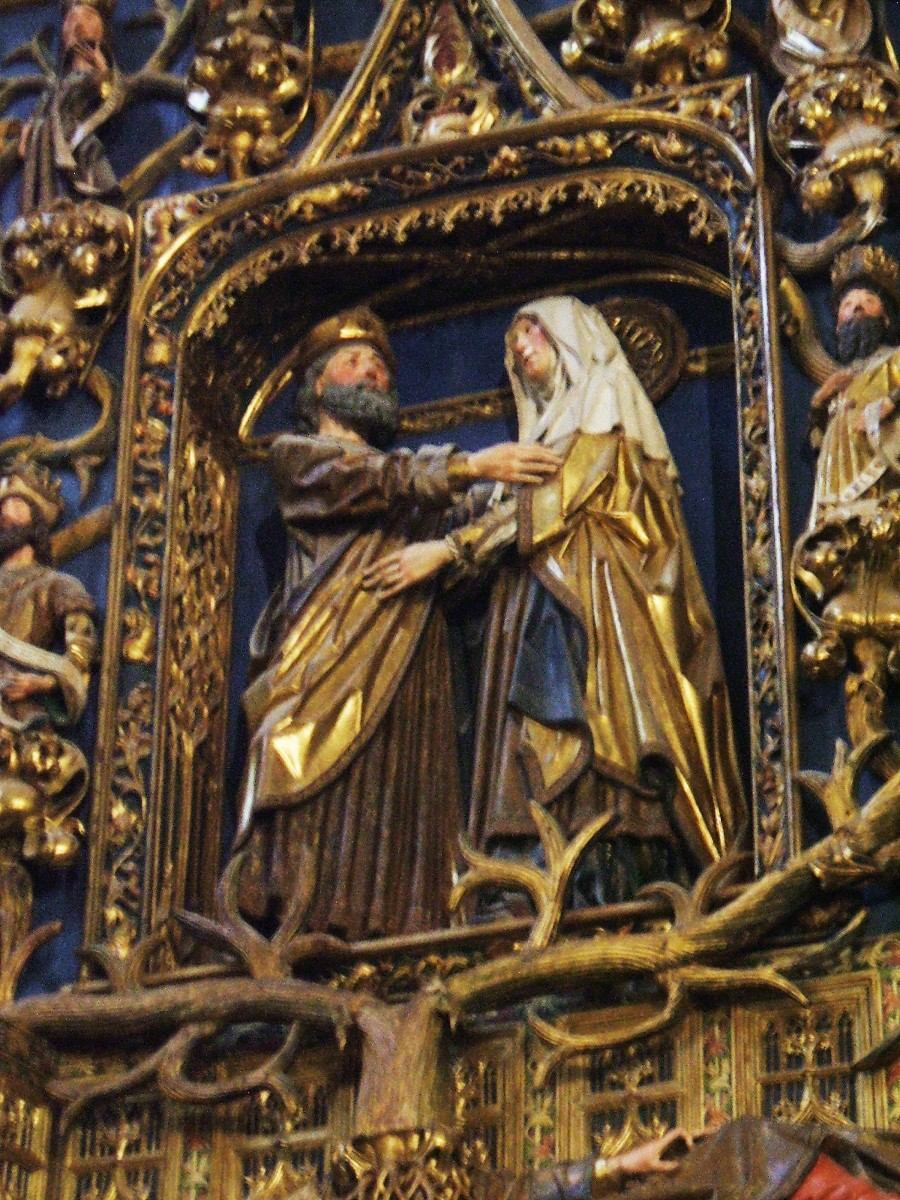 El abrazo de San Joaquín y Santa Ana, en el Retablo hispano-flamenco, obra de Gil de Siloé, de la Capilla de Santa Ana o de la Concepción de la Catedral de Burgos, España